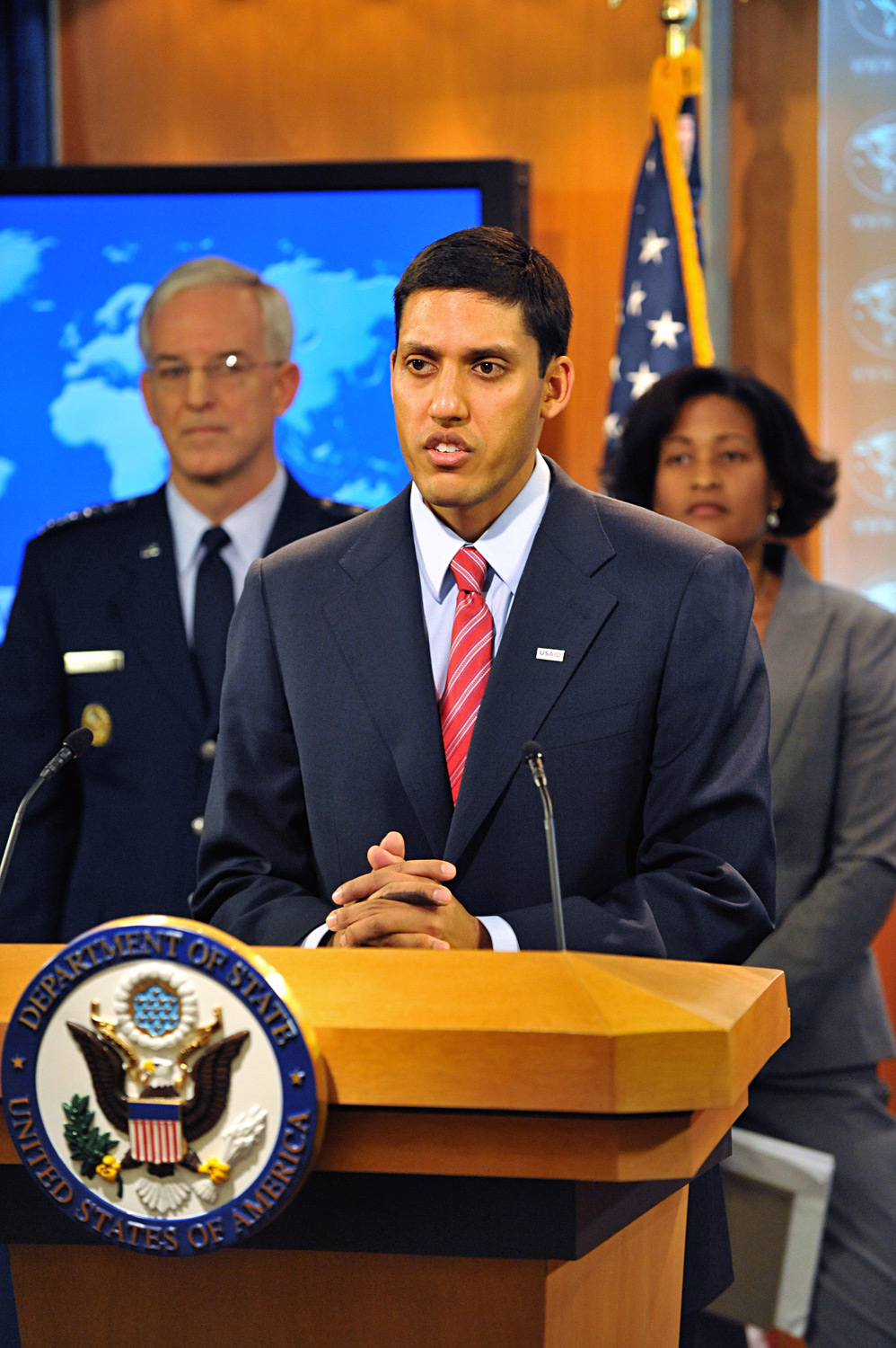 U.S. Agency for International Development Raj Shah delivers remarks on the situation in Haiti during special briefing at the State Department, Washington, January 13, 2010. U.S. SOUTHCOM Commander General Douglas Fraser and State Department Counselor Cheryl Mills stand behind him.